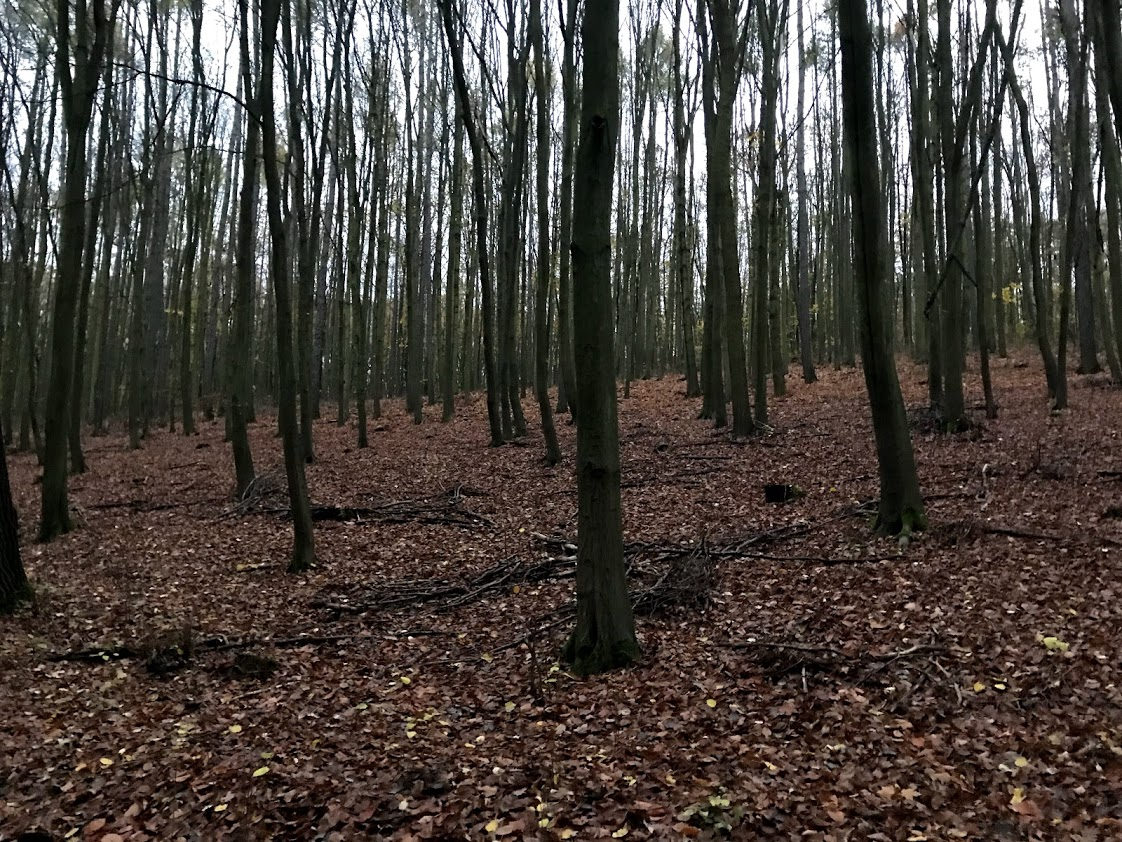 Listnatý les lemující stezku.